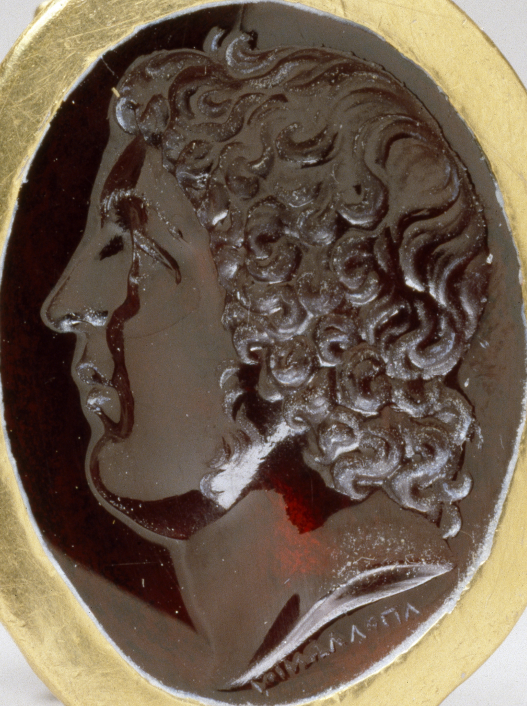 This ring has a swivel bezel and is carved intaglio. Detail: portrait, either of a courtier or of Athenian statesman Echedemos.